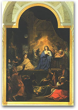 Pentecostes picture made by Charles Le Brun for the Saint-Sulpice Seminar Chapel, ordered by the french catholic priest Jean-Jacques Olier, the Saint-Sulpice Company founder. Today it is in the Chapel of the Sulpician House, Rue du Regard, 6, Paris, France.